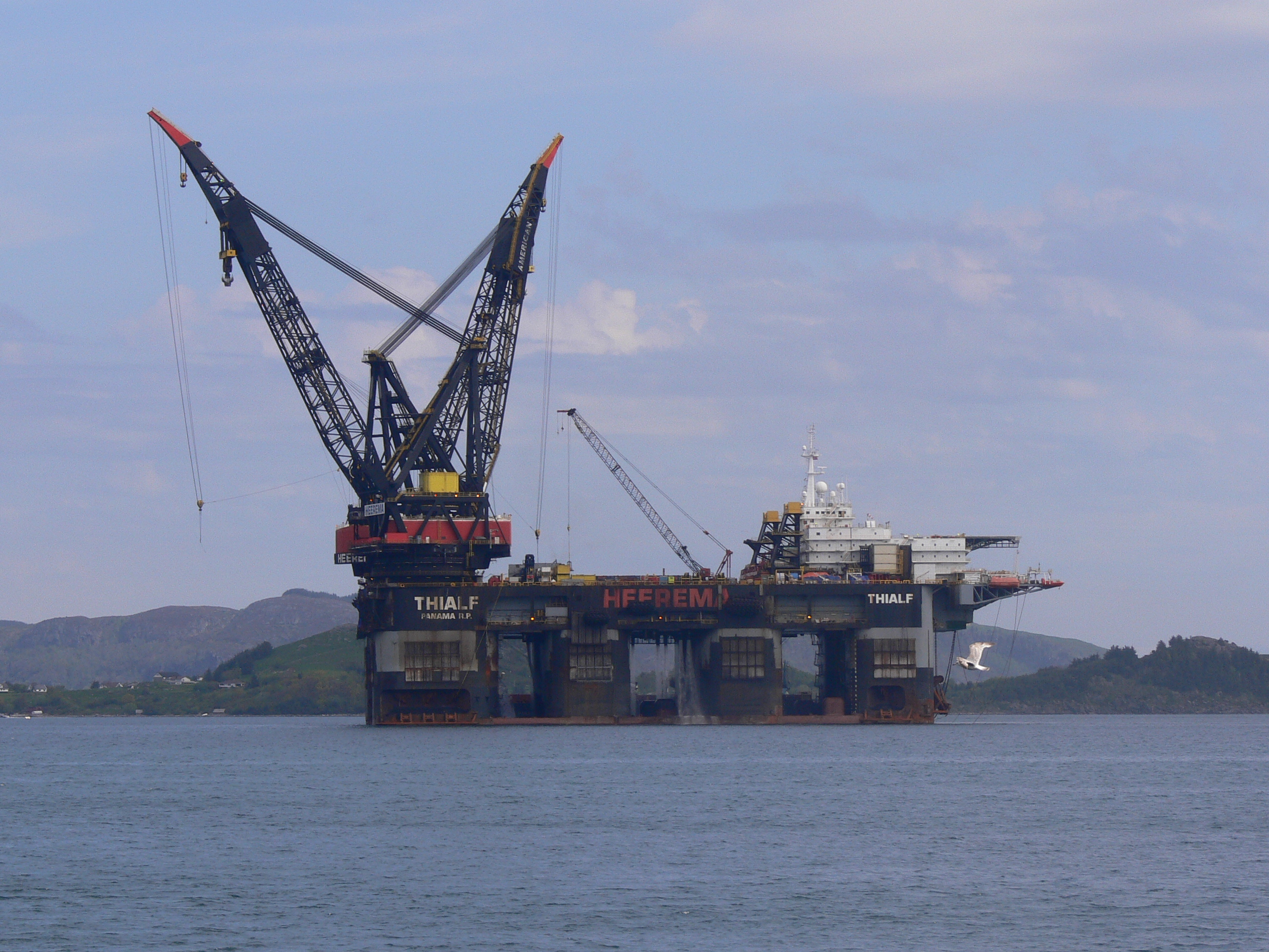 Norway, Stavanger Randaberg 2010 May